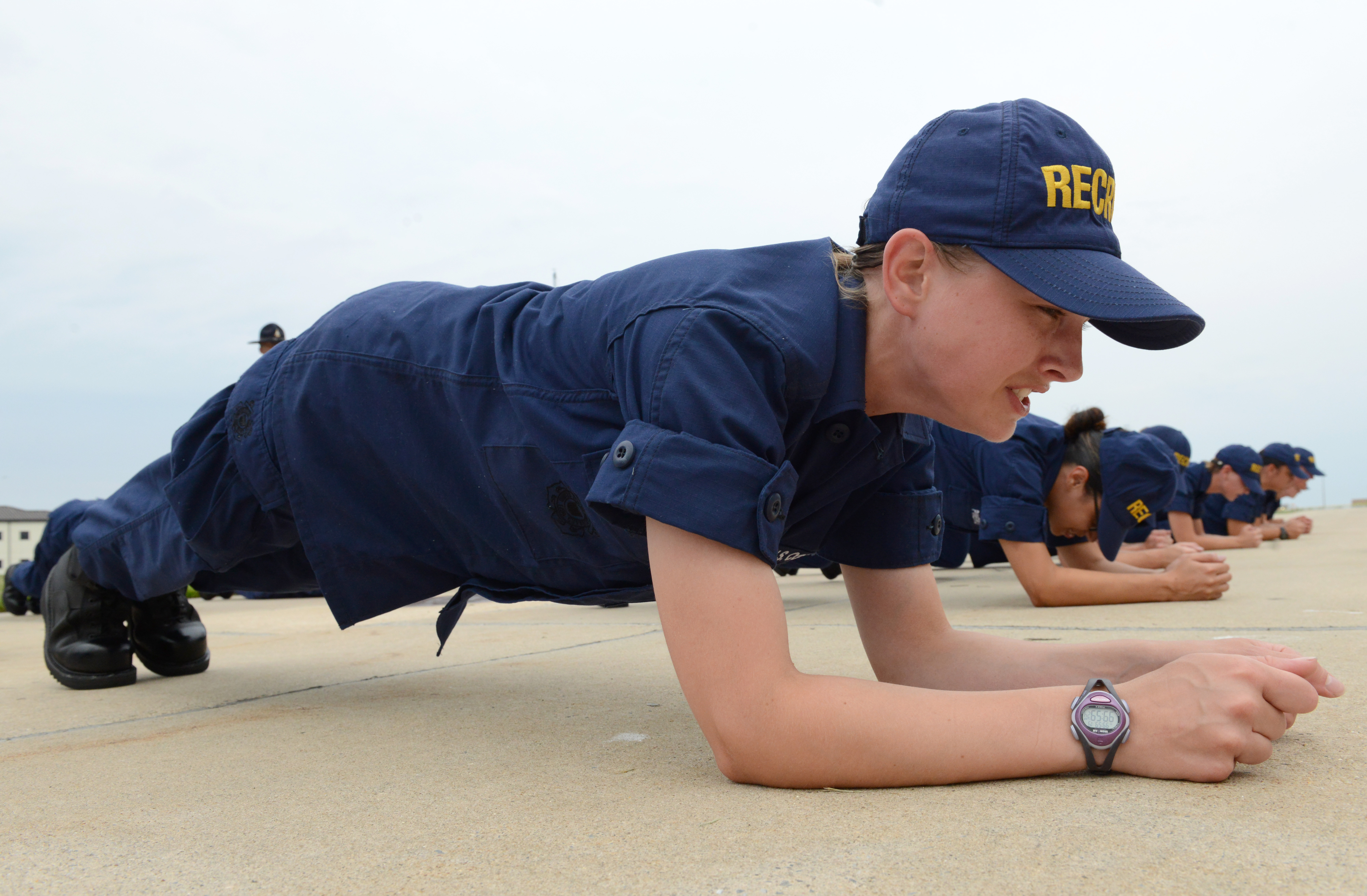 A U.S. Coast Guard recruit, assigned to Company Oscar 188, performs a plank during incentive training at Coast Guard Training Center Cape May in Cape May, N.J., July 31, 2013.